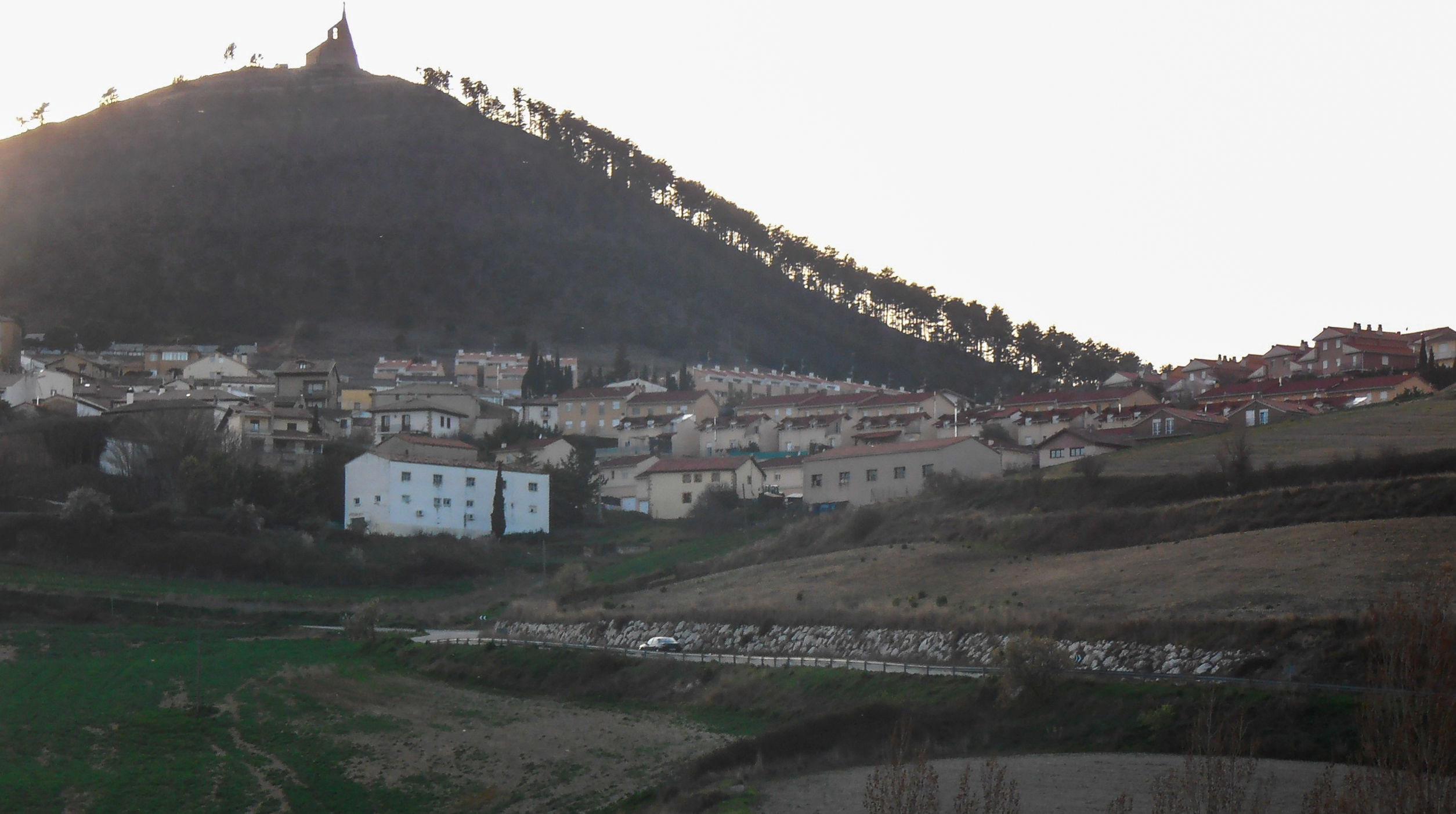 Añorbe, Navarre, Spain